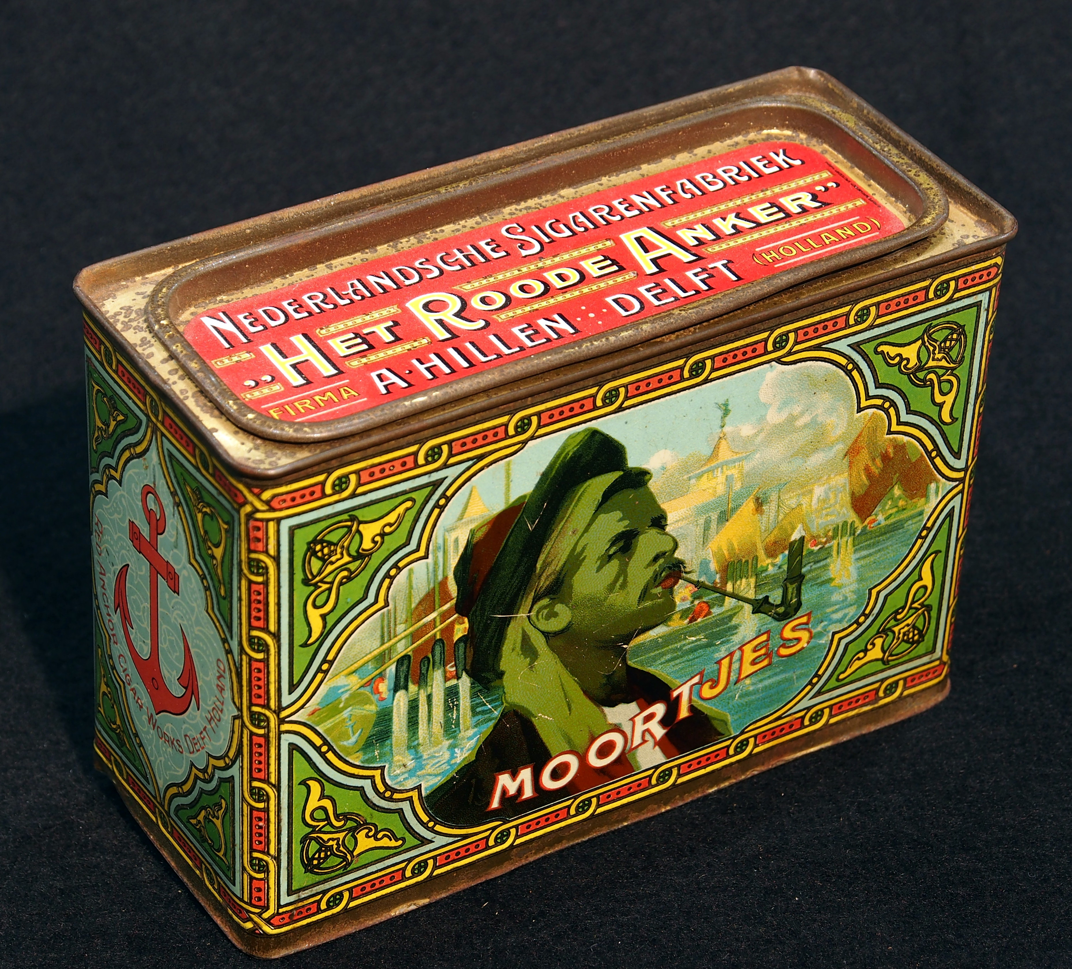 Very old packaging of a Dutch product that is not produced and/or not sold any more.Photographed at a collector of Droste memorabilia and old tin cans. For more info see tincollectors.nl or